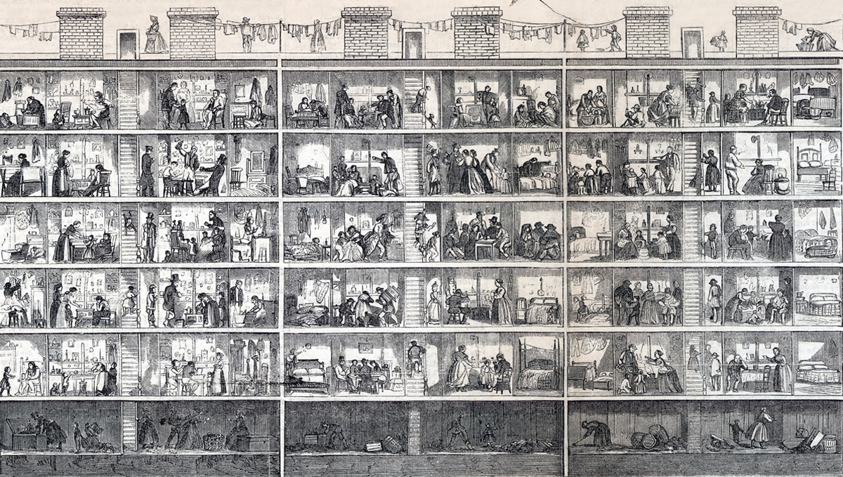 Side Sectional View of Tenement House, 38 Cherry Street, N.Y. THE TENEMENT HOUSES OF NEW YORK - HOW THE POOR LIVE IN CROWDED CITIES - HOW PESTILENCE IS GENERATED - HOW THE PARENTS ARE DEMORALIZED AND THEIR CHILDREN DEPRAVED - THE GREAT SOURCE OF DESTITUTION AND CRIME. - From sketches by Mr. Albert Berghaus